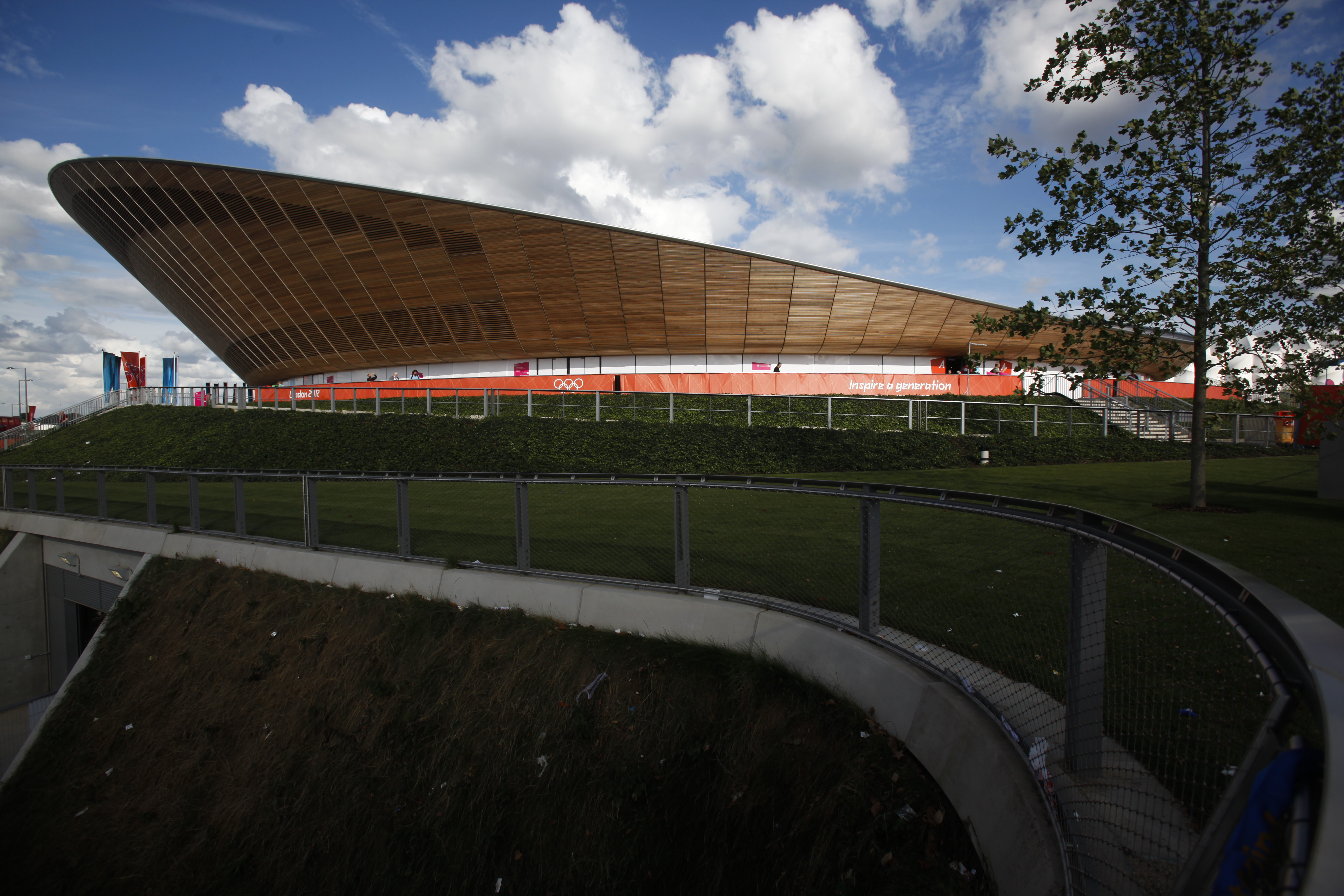 The Velodrome on the Olympic Park, 5 August 2012